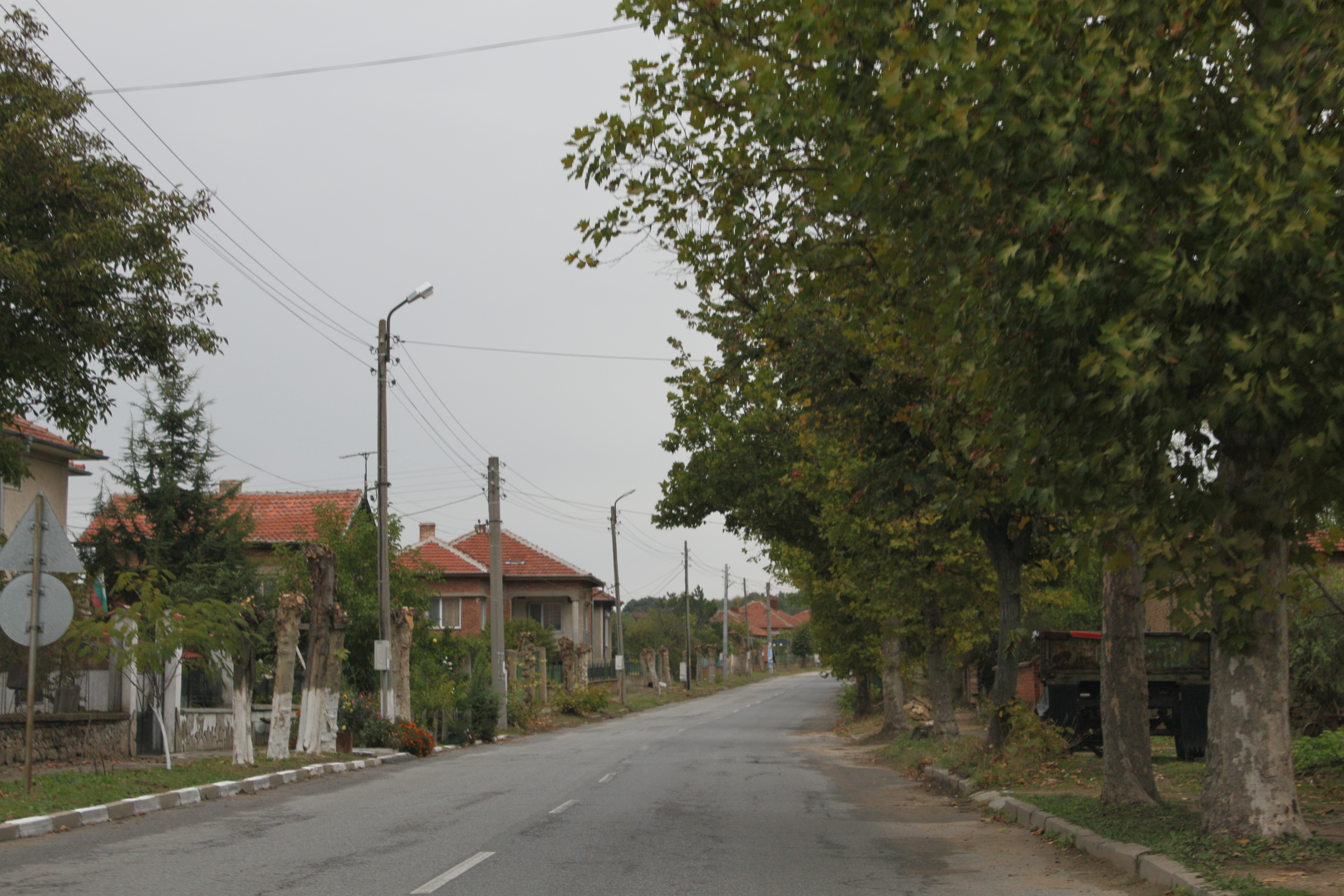 Balgarin, a village in the Rhodope Mountains, Bulgaria